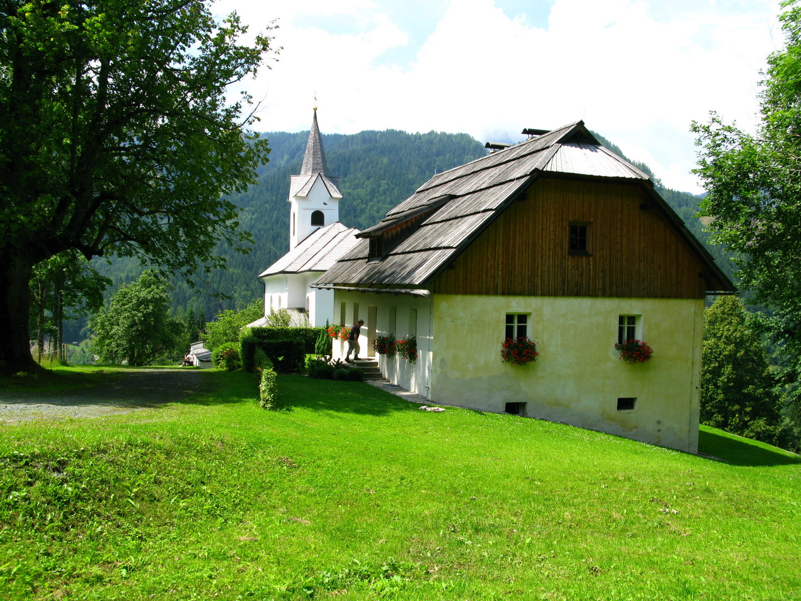 Church of Troegern (Korte) in the Troegern canyon in the community Eisenkappel-Vellach, district Völkermarkt, Carinthia, Austria, European Union.